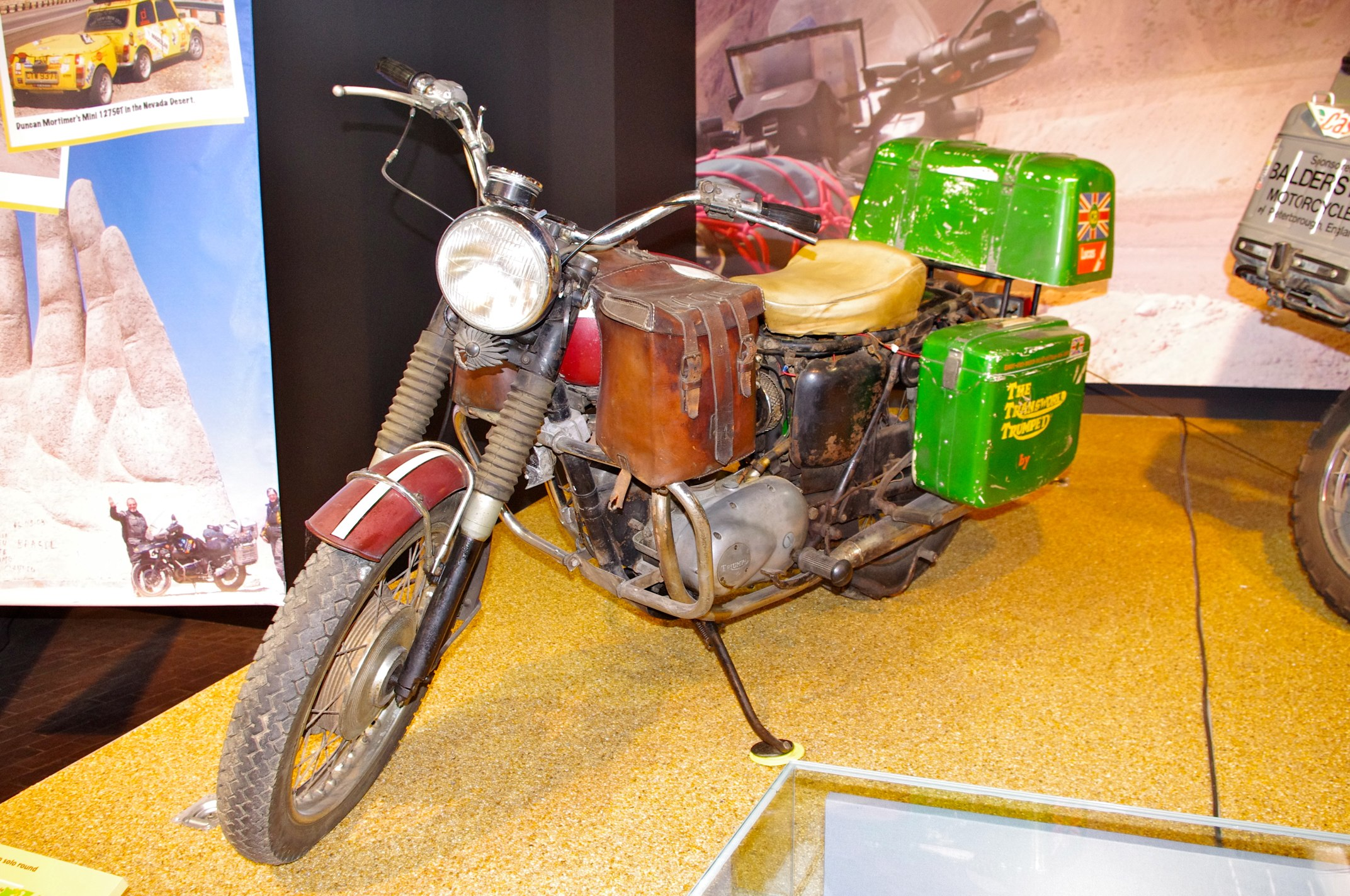 Used by Ted Simon for a solo round the world journey (63,400 miles) a 1974 Triumph Tiger 100 National Motor Museum, Beaulieu